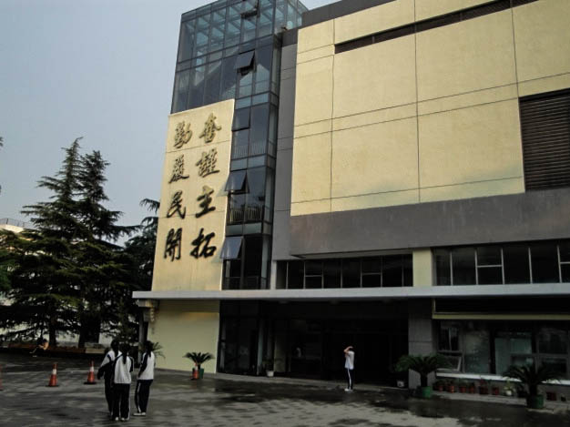 Administration Building